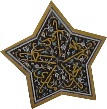 Safavid Star from Ceiling of Shah Mosque, Isfahan, Iran ستارهٔ صفوی،‌ سقف مسجد شاه در اصفهان